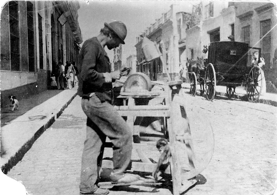 Buenos Aires. Afilador callejero, 1870.